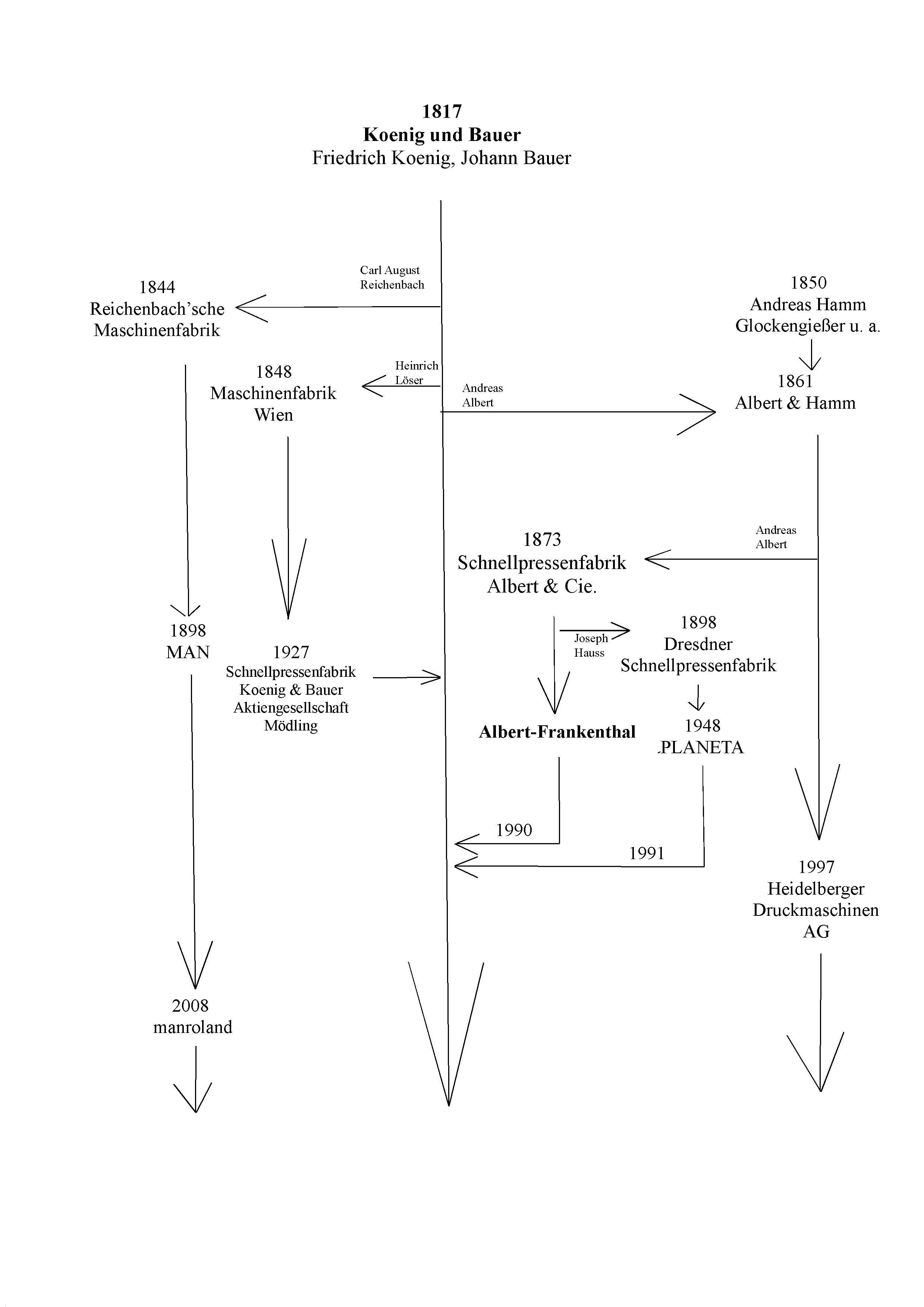 Koenig und Bauer - company history and involved Persons